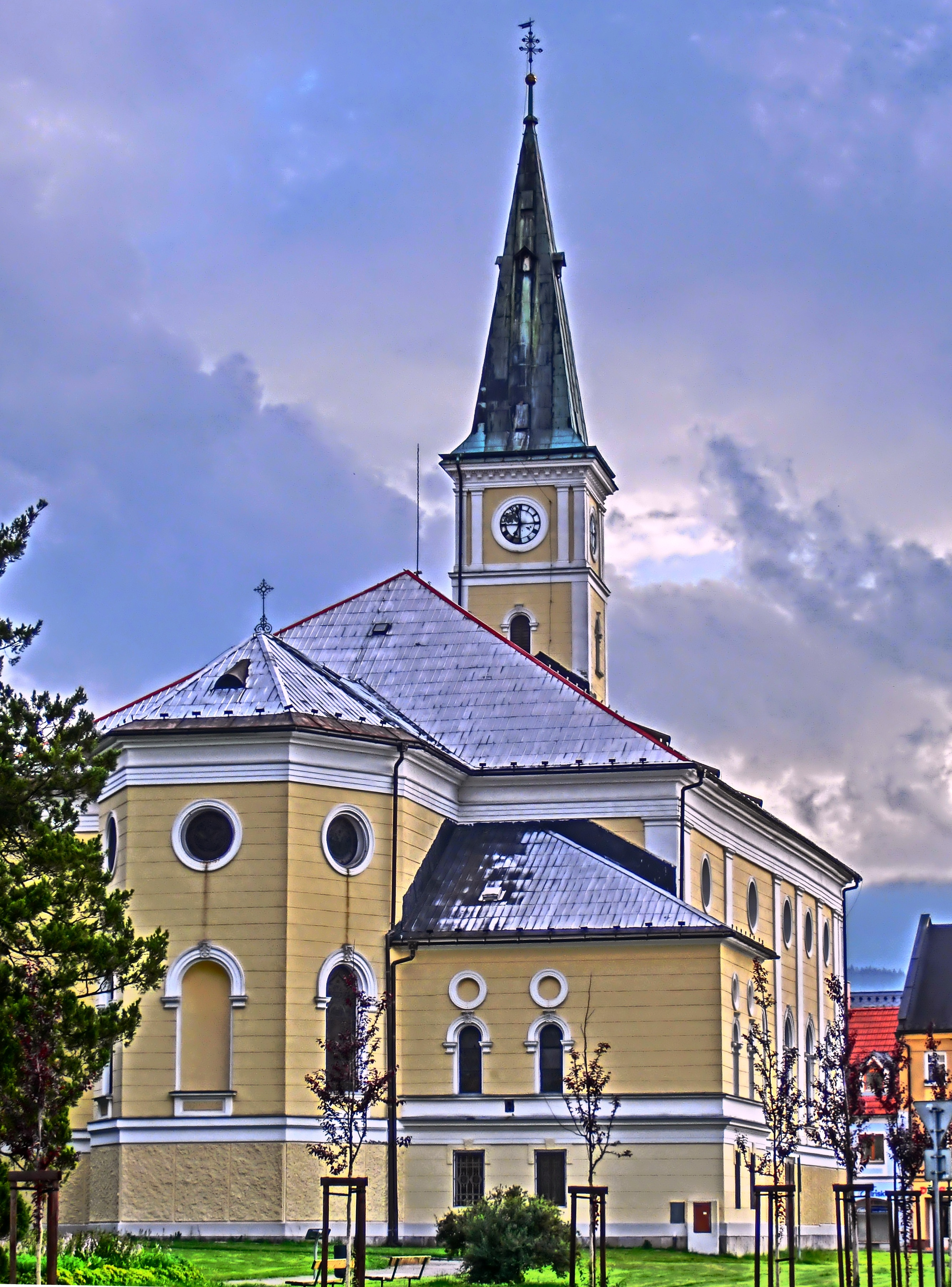 Assumption Church Jeseník